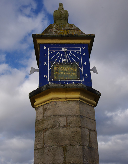 The Countess's Pillar